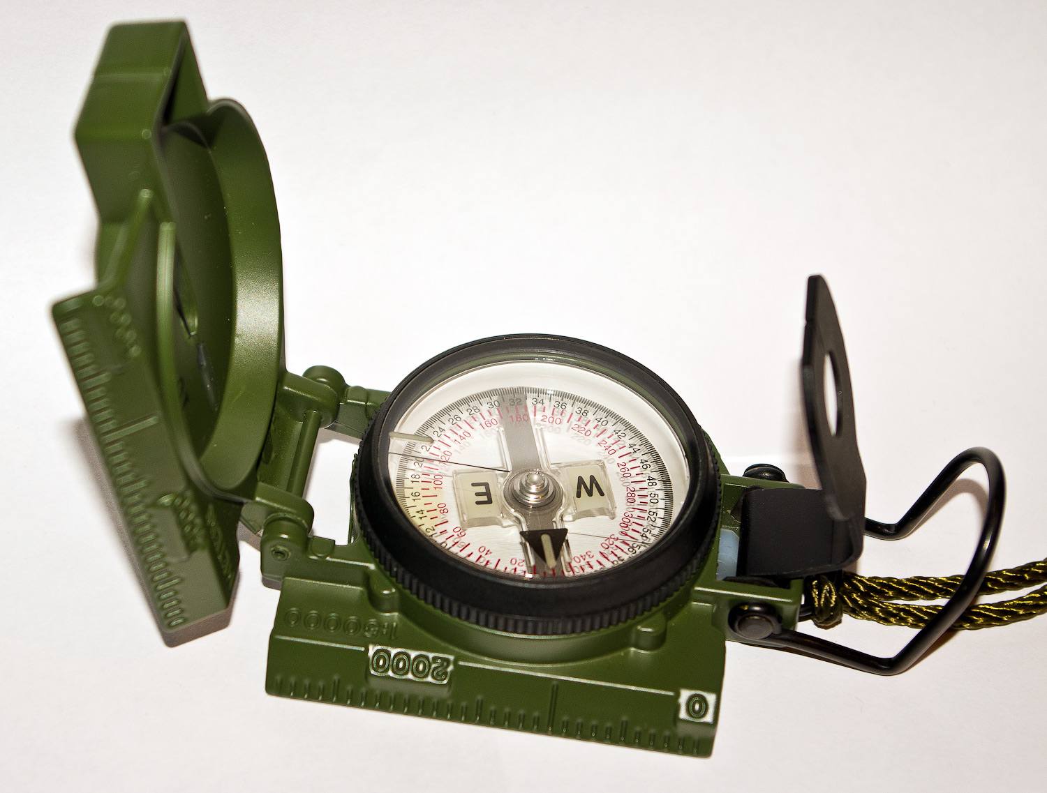 Original Cammenga lensatic compass model 27 (phosphorescent), aluminium, air filled, induction damping